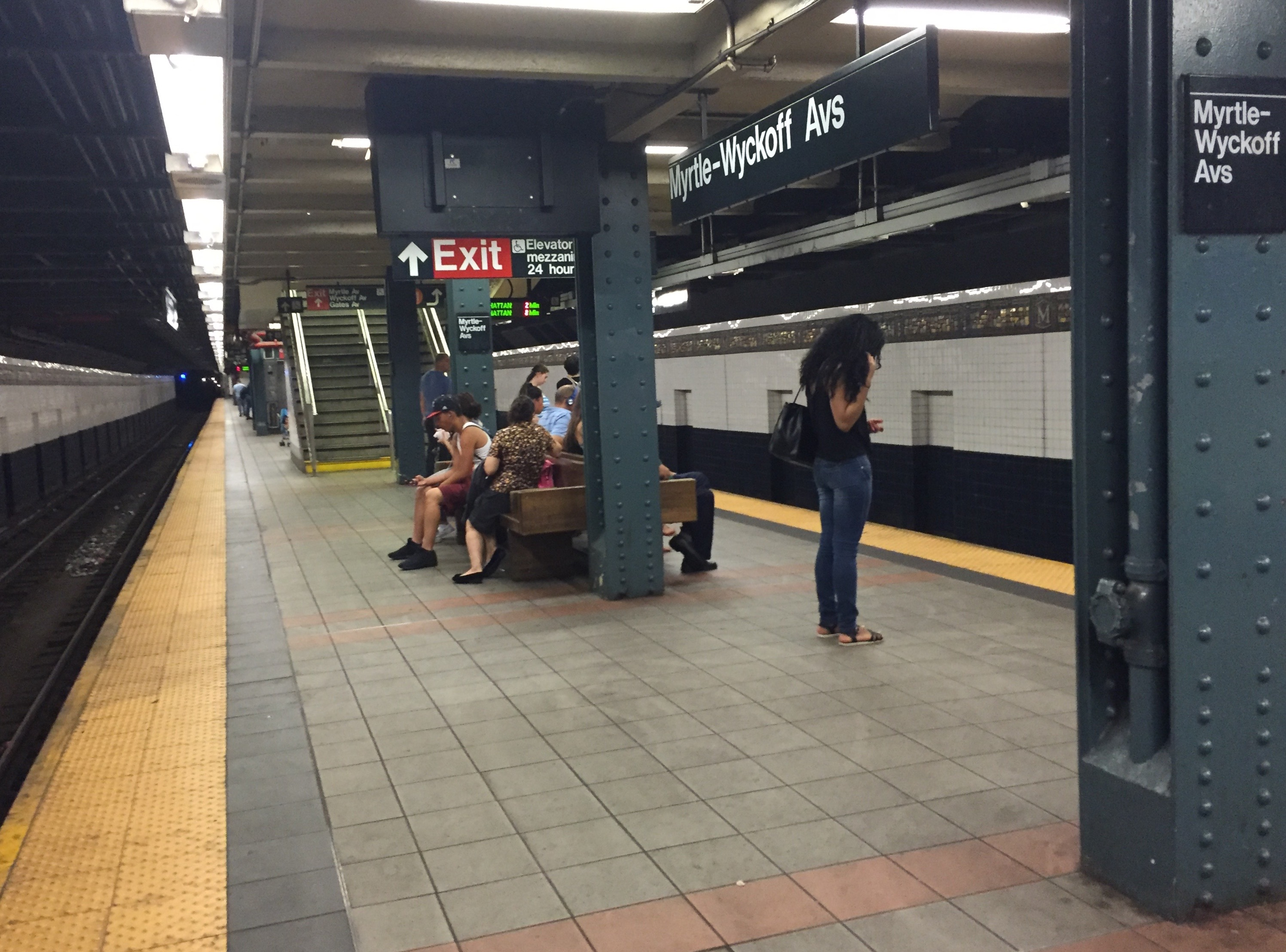 Platform at Myrtle–Wyckoff Avenues on the L.